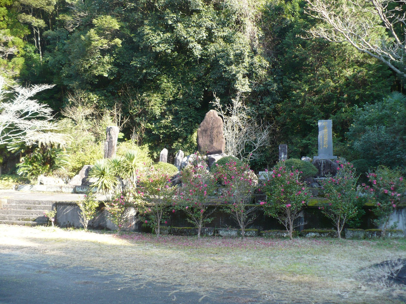 Ruin of Kizushi elementary school, Aira, Kagoshima, Japan. Now, the site serves for Kizushi branch office of Aira city office.